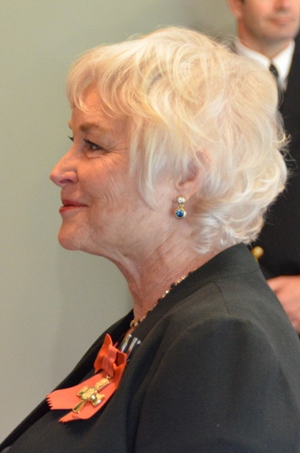 Lisa Harrow, of the United States of America, received the insignia of an Officer of the New Zealand Order of Merit for services to the dramatic arts, on 6 May 2015.